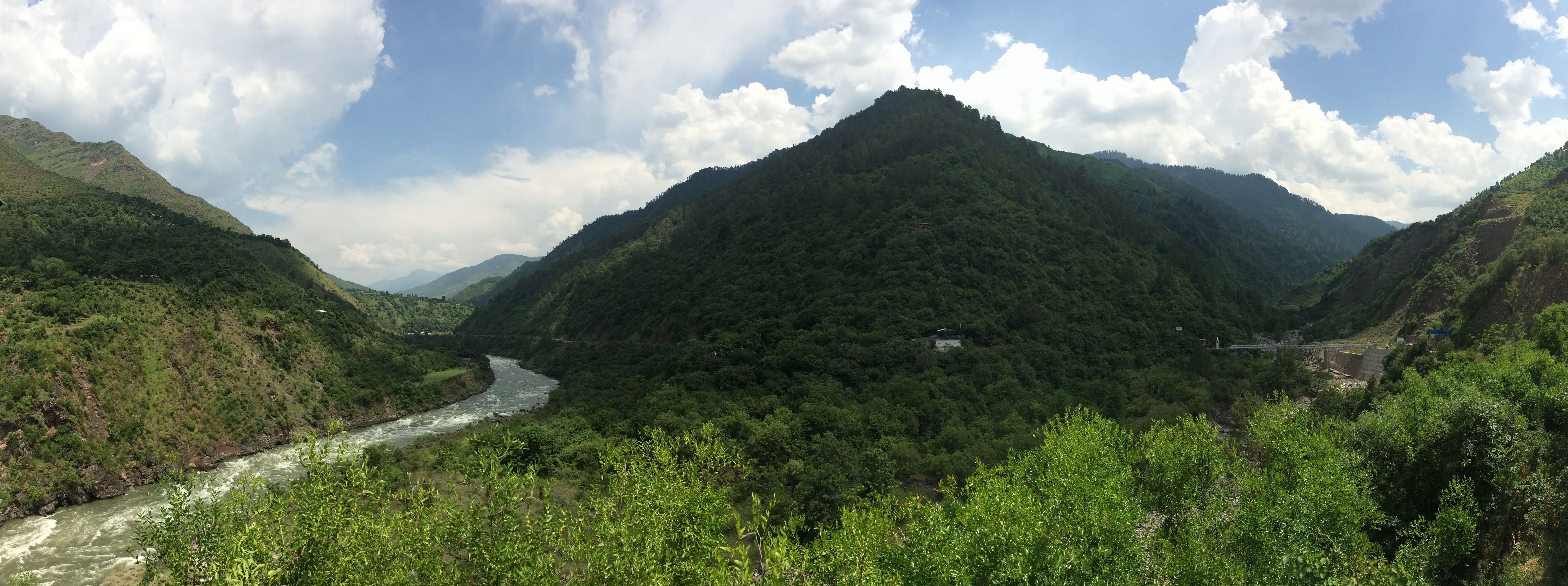 A rainy day trip to kashmir